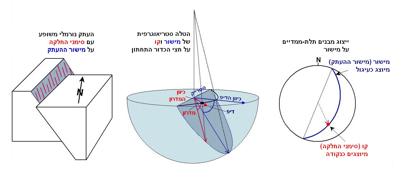 Diagram attempting to show the use of lower hemisphere stereographic projection in structural geology using the example of a fault plane and a slickenside lineation observed within the fault plane.